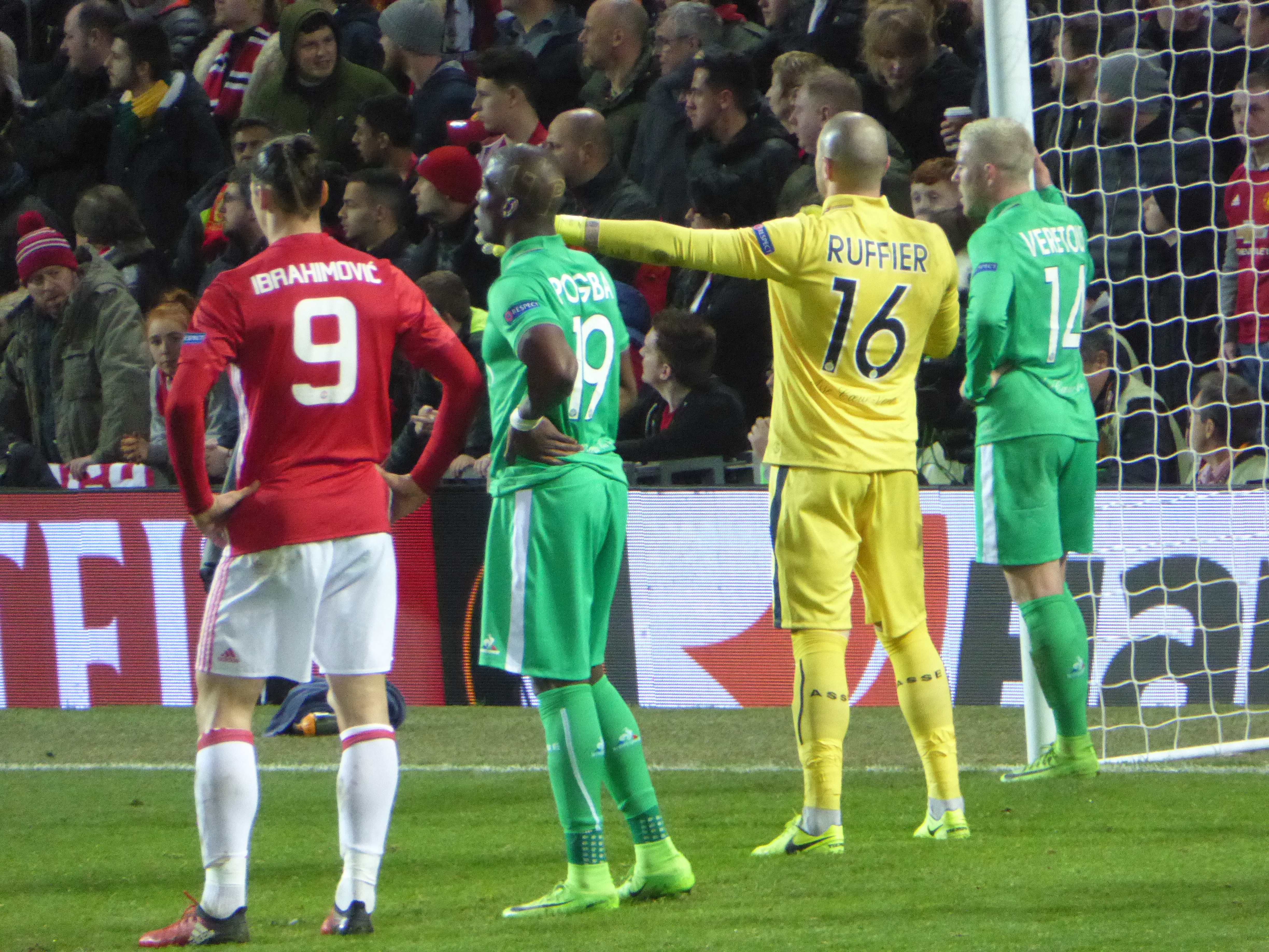 Manchester United v AS Saint-Étienne (3-0), UEFA Europa League, Old Trafford, Manchester, 16 February 2017